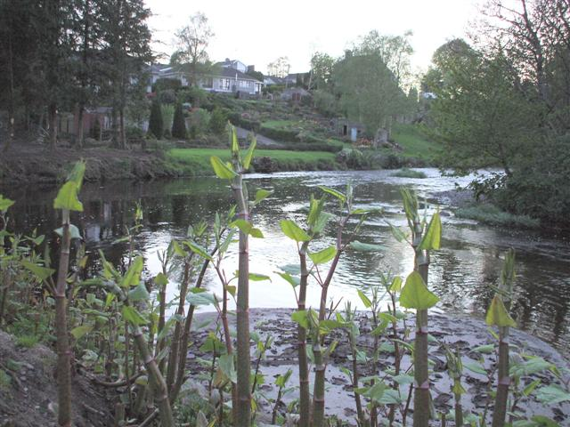 Alien plants at Cranny, Omagh. My attention has been drawn to this unwelcome invasion of Japanese Knotwood along the banks of the Camowen River. 415681